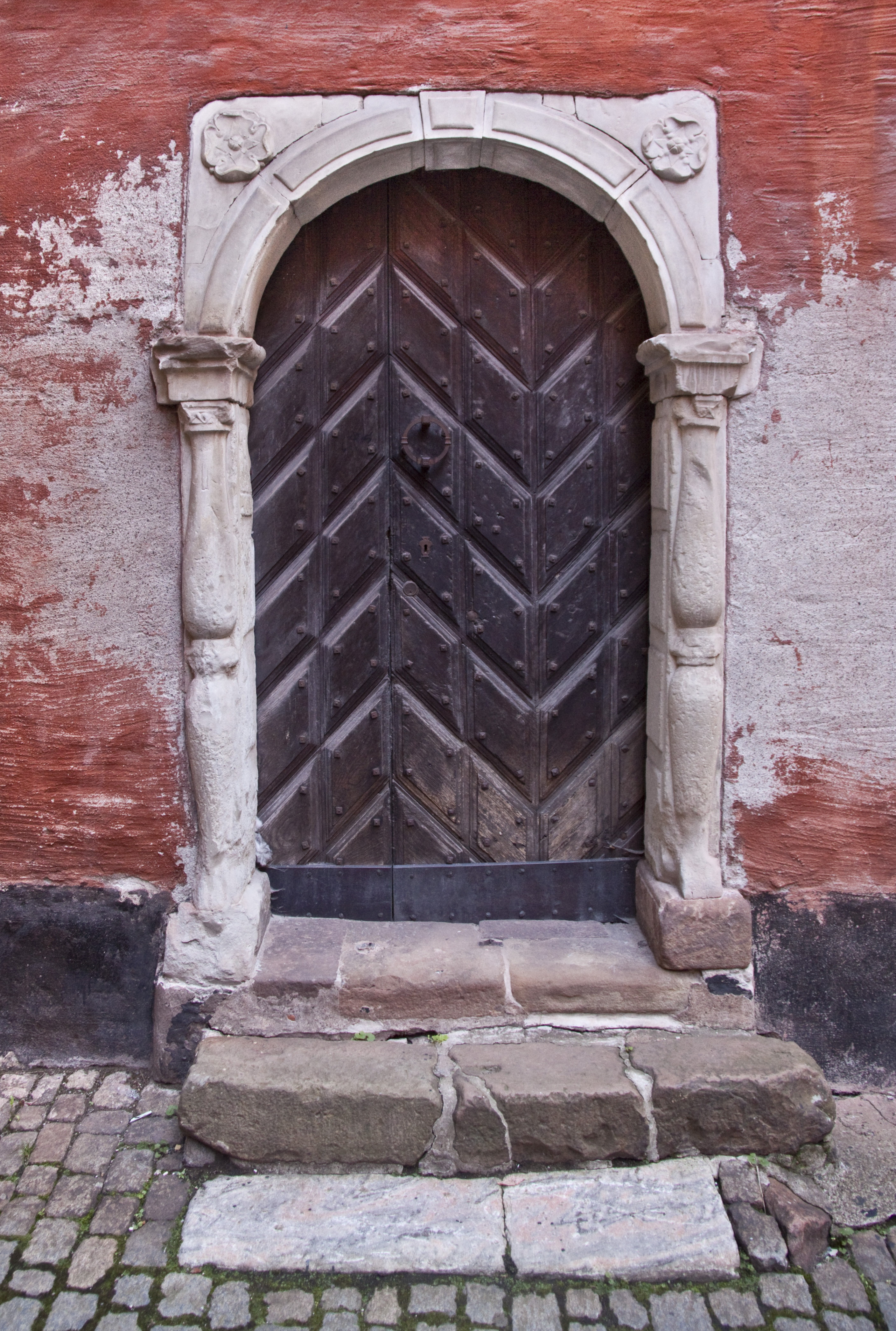 Stone portal in Staffan Sasses gränd, Gamla stan, Stockholm (EUROPA 11 STOCKHOLM)